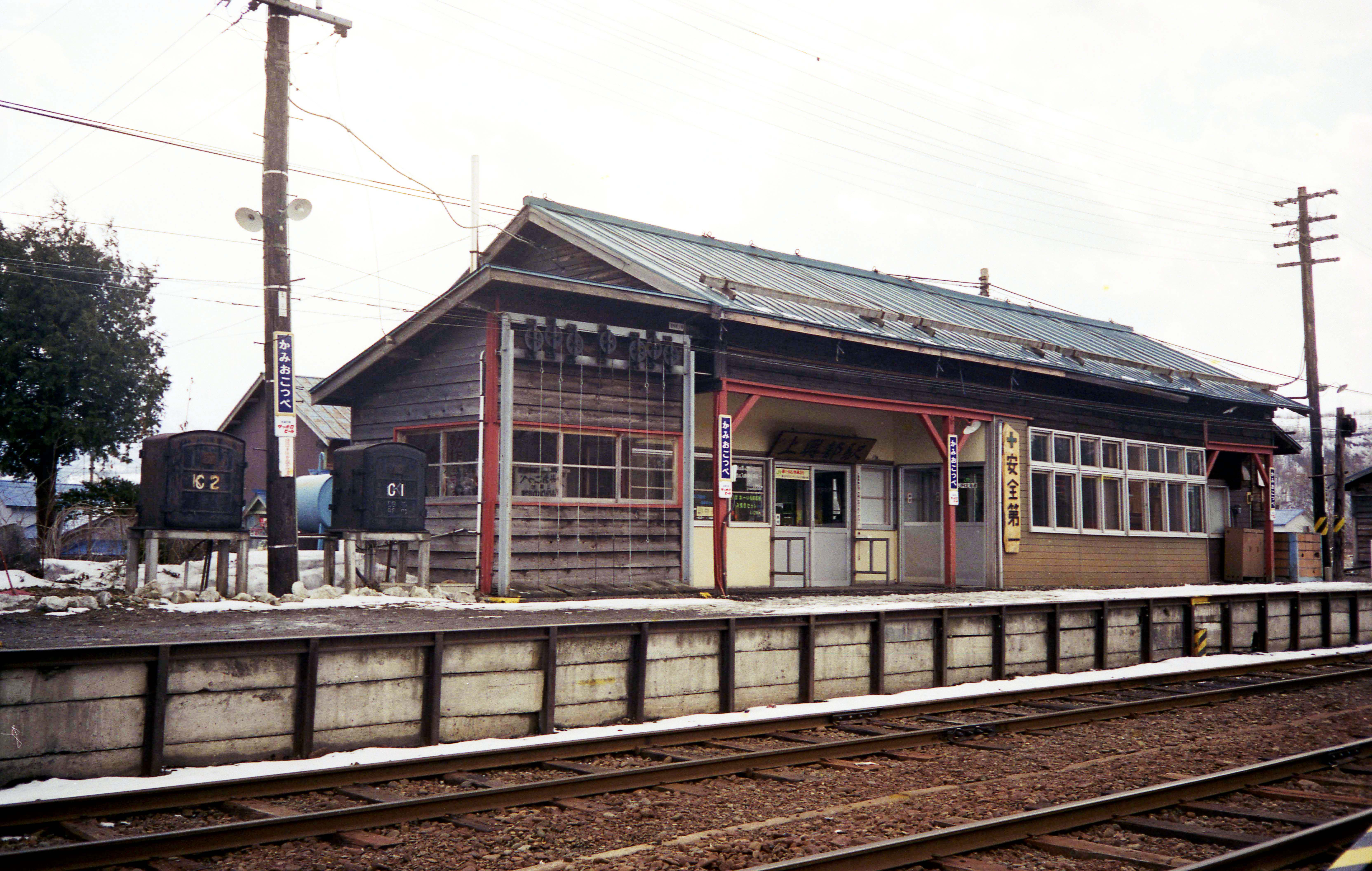 The building of Kamiokoppe Station,Hokkaido Railway Company Nayoro Main Line(before abolished)